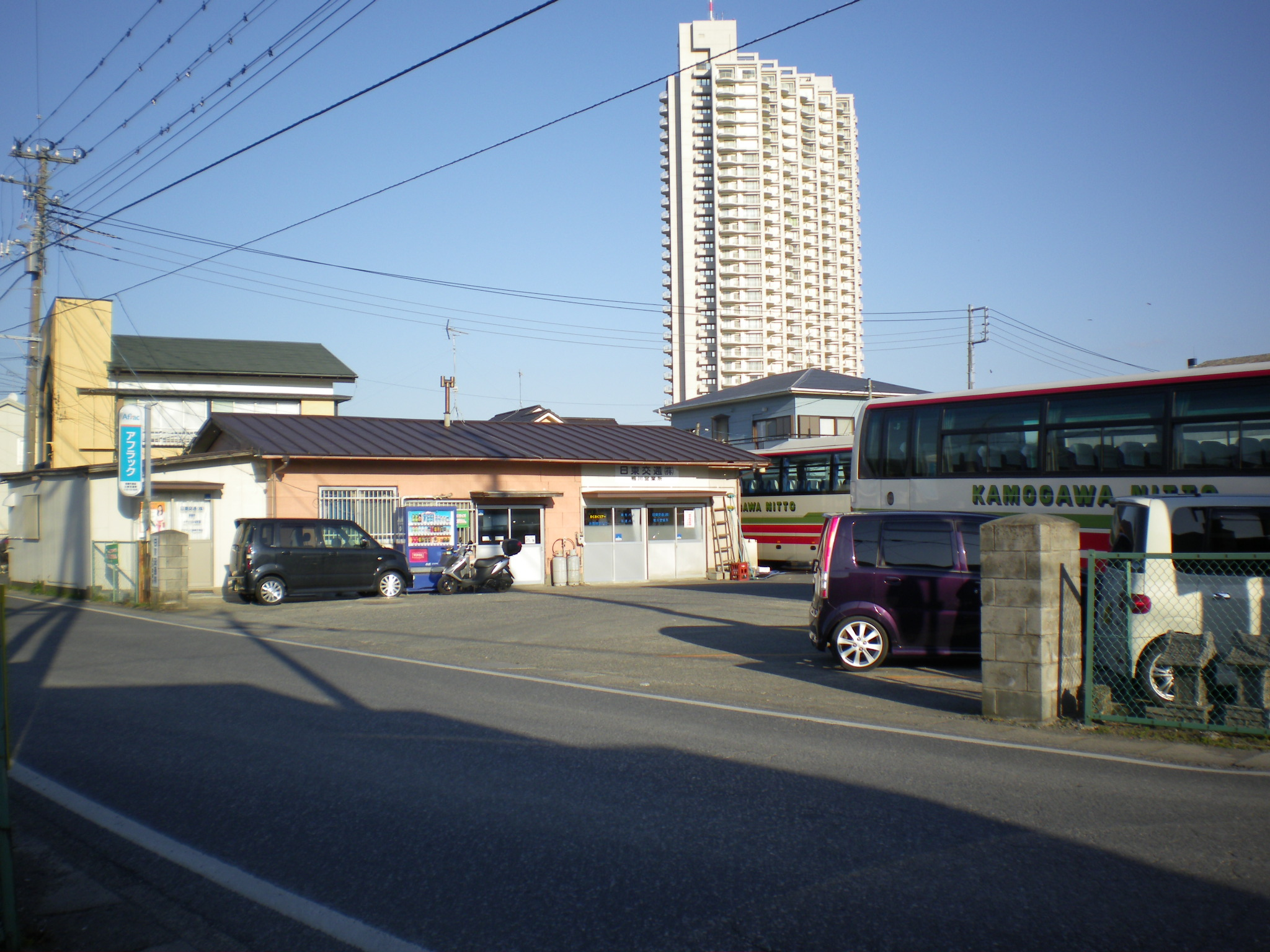 Nitto Kotsu Kamogawa Department Office(Matsusaki Shed)